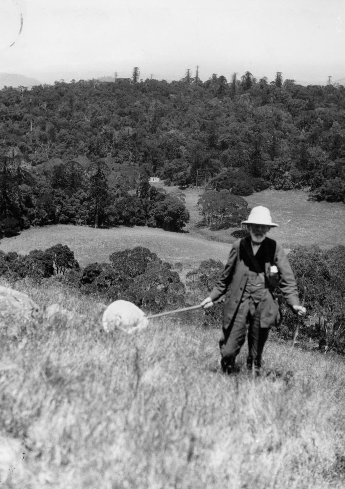 Doctor Alfred Jefferis Turner collecting butterflies in the Bunya Mountains